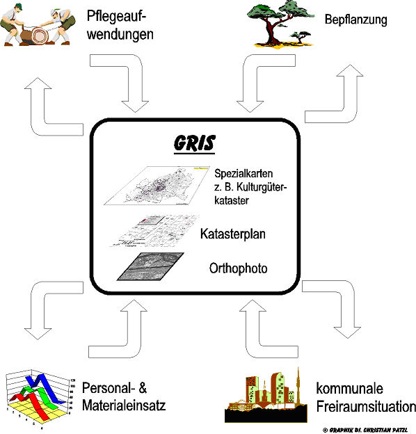 Overview of a Greenarea-Information-System